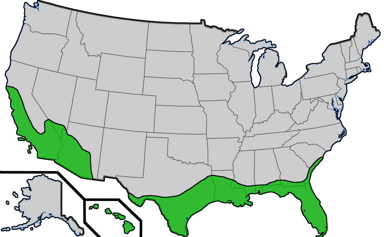 The approximate range of cultivation for Canary Island Date Palms in the US with little to no winter protection.